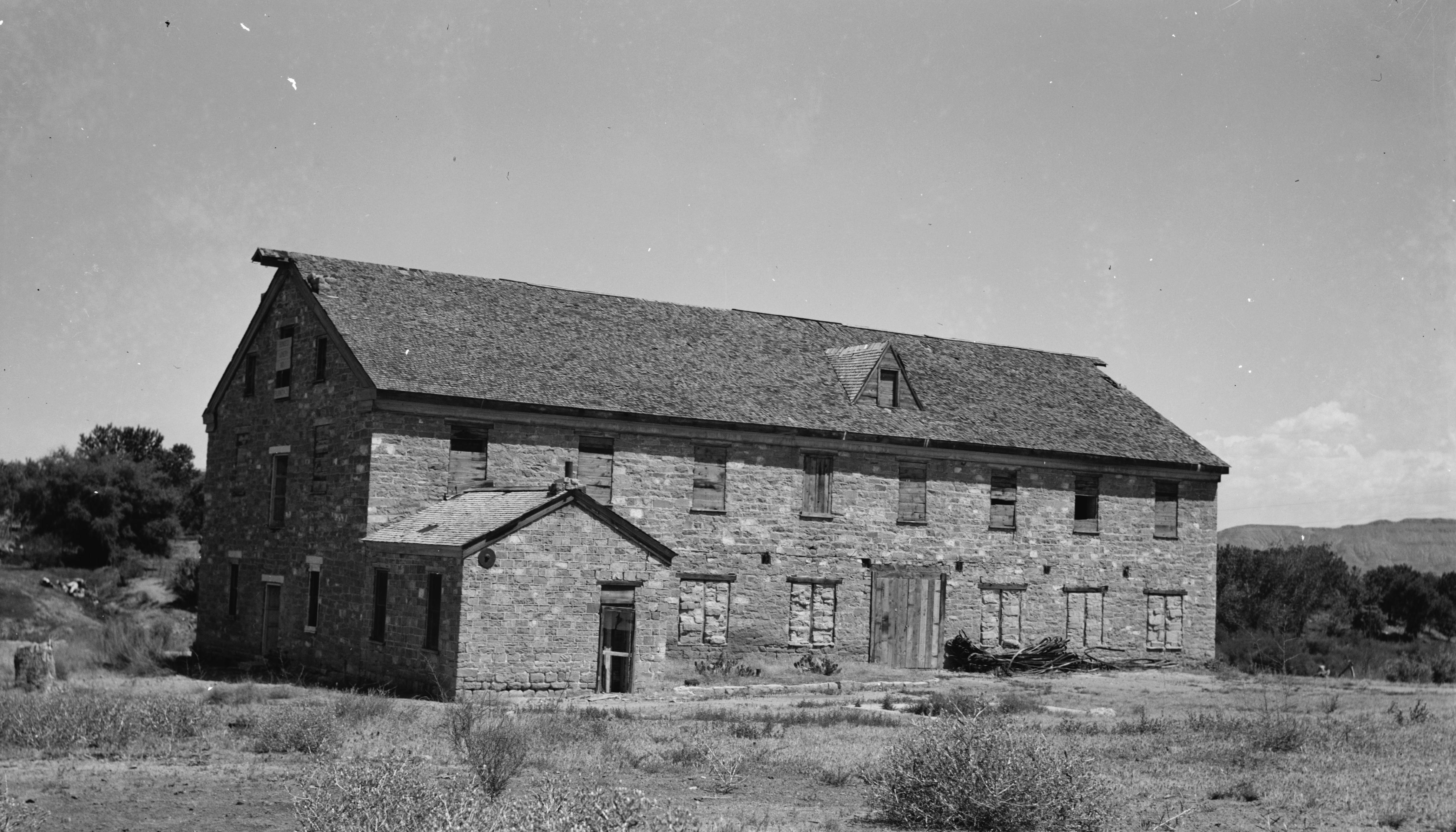 Front of the Washington Cotton Factory, located off Interstate 15 in Washington, Utah, United States. Built in 1867, it is listed on the National Register of Historic Places.